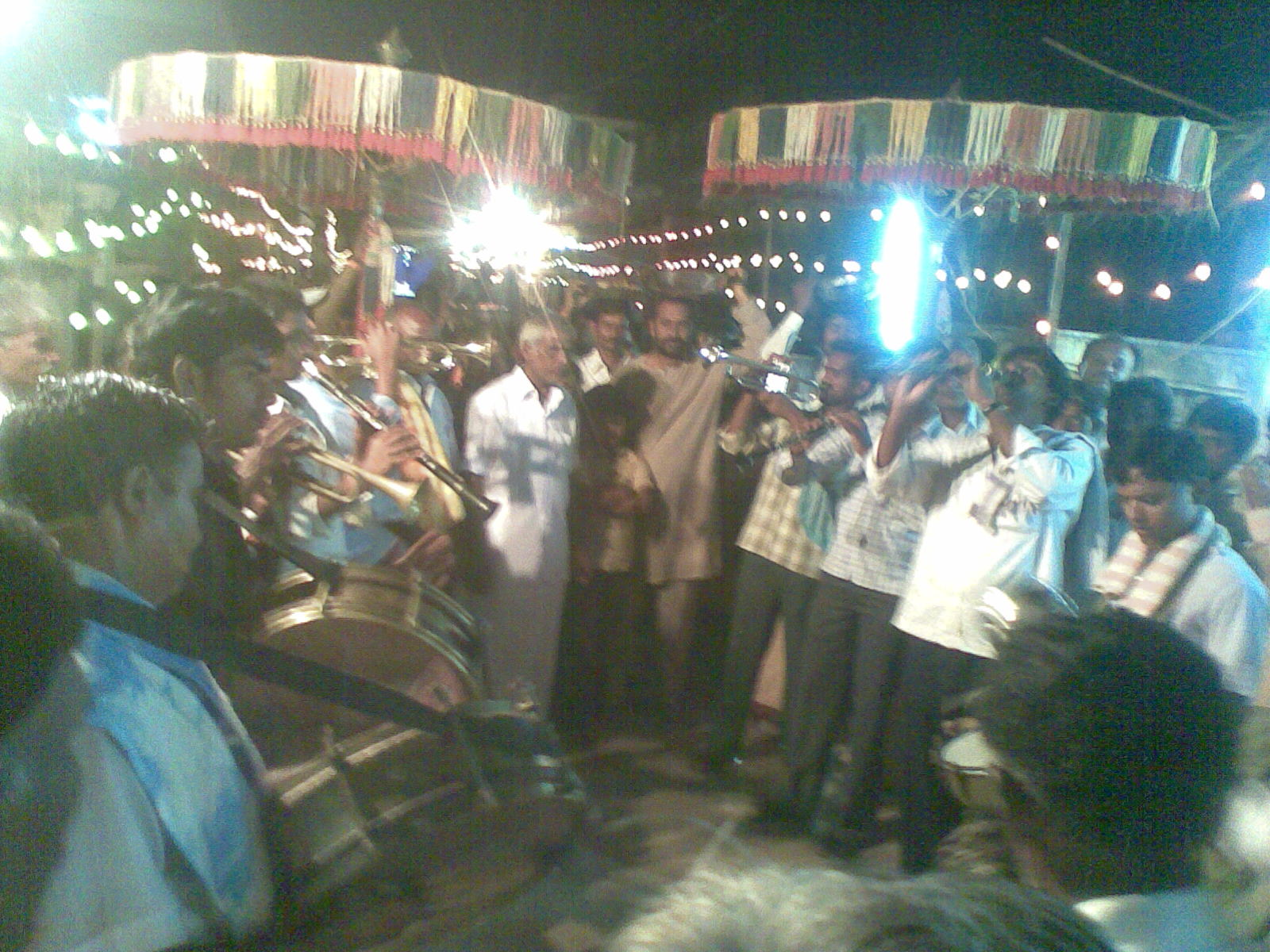 Ubhayam (Temple Festival)